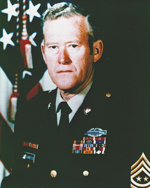 SMA William G. Bainbridge from [1]